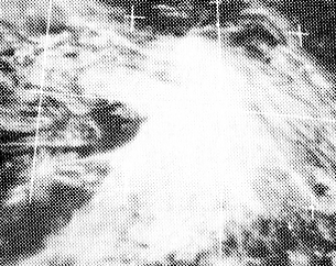 This ATS 3 weather satellite image of a tropical depression east of Hurricane Agnes was taken on June 19, 1972 at 1619 UTC